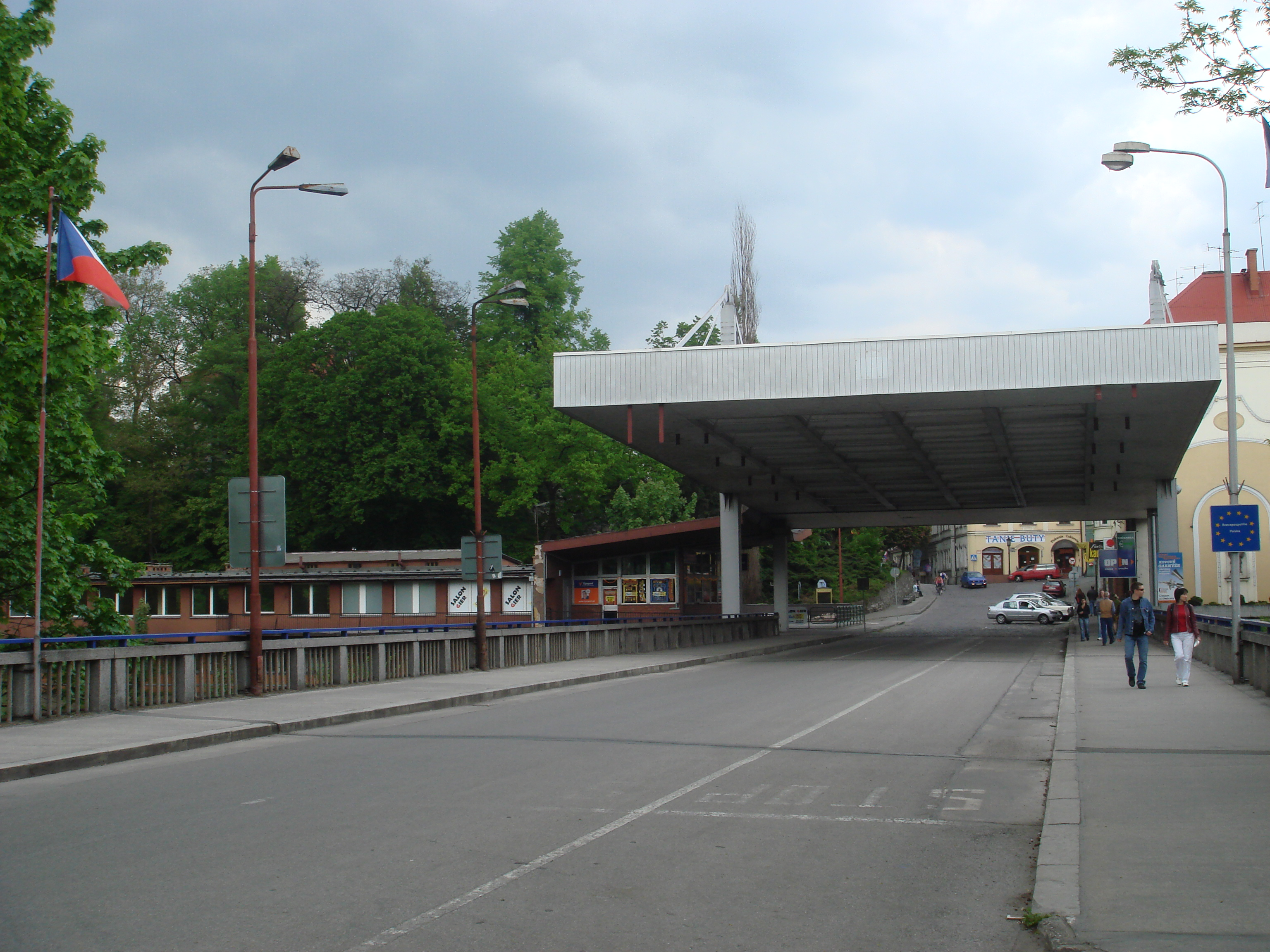 The Friendship Bridge between Český Těšín (Czechia) and Cieszyn (Poland).